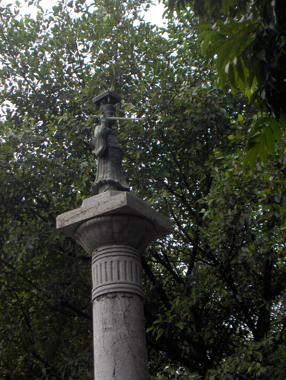 Lê Lợi monument returned sword to Hoan Kiem Turtle at Hoan Kiem lake, Hanoi